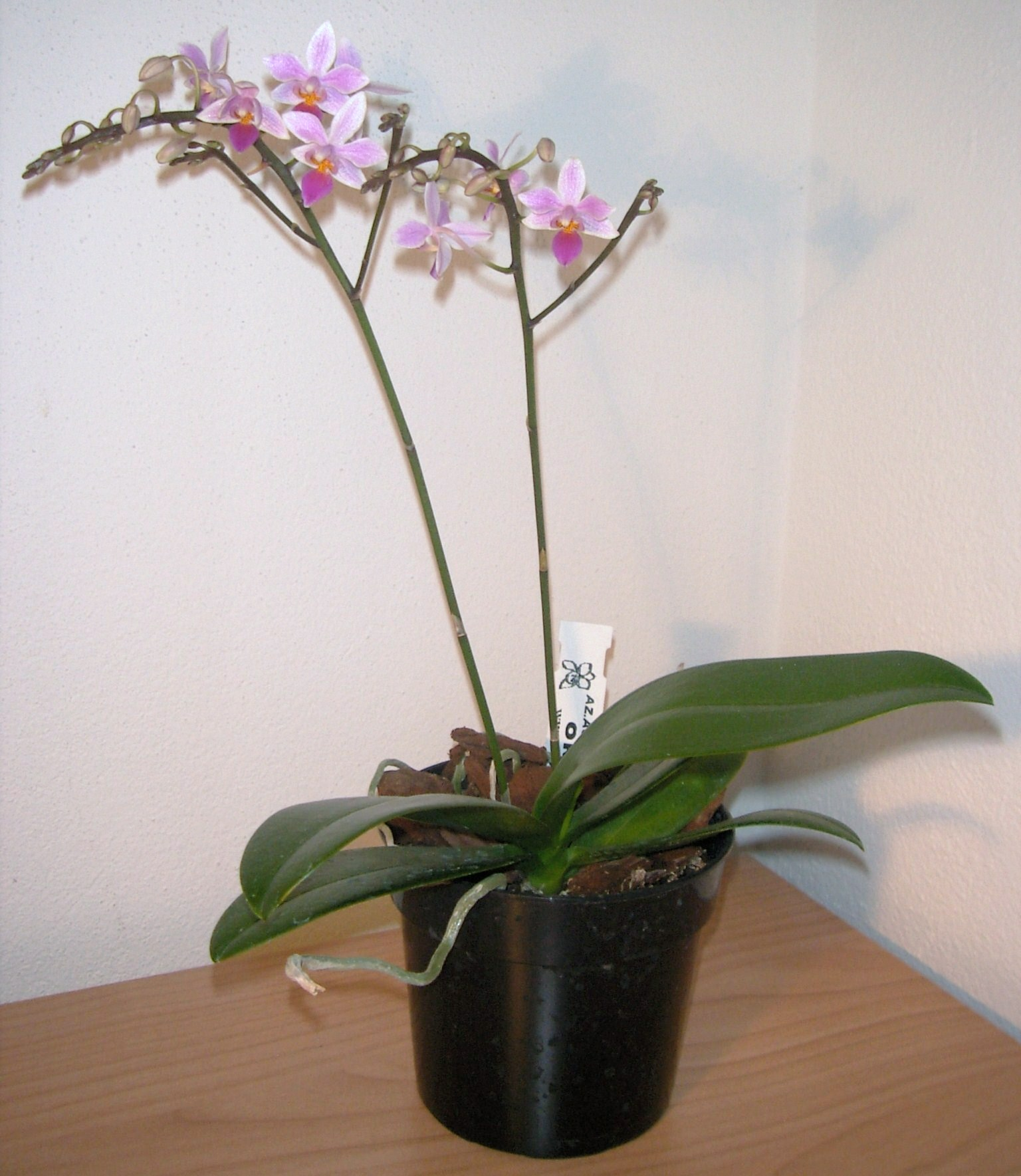 Phalaenopsis equestris grown in a pot. Photo made in Italy.